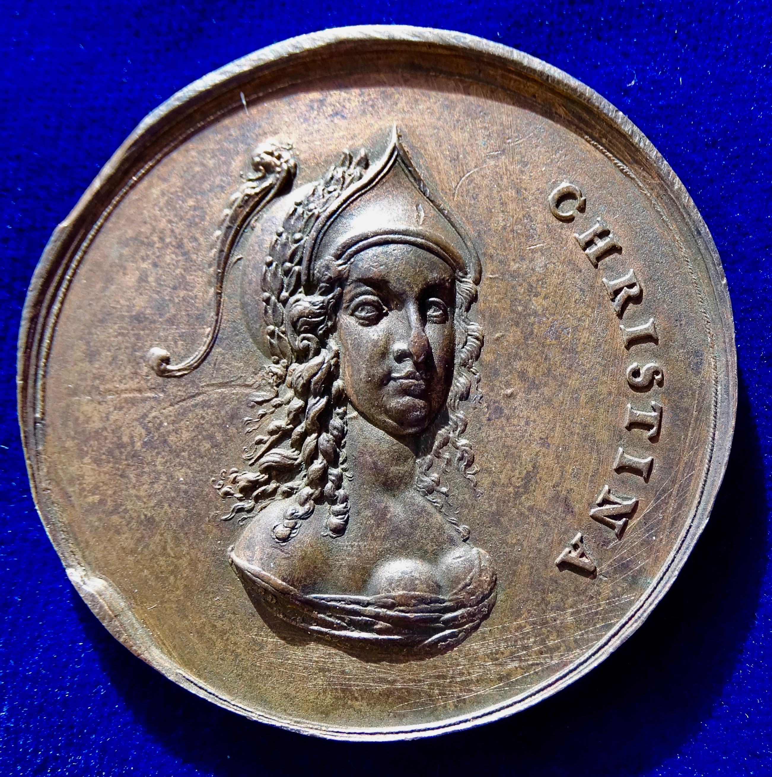 Sebastian Dadler Original Medal N.D. (1648), Christina of Sweden, Peace of Westphalia. Copper medallion d. = 55 mm. Christina, Queen of Sweden, 1632 - 1654 Portrait with feathered helmet r., curved at r.: "CHRISTINA"/ The Queen as Minerva standing l., holding an olive branch in her l. arm, and grasping the tree of knowledge with her r. hand. curved at l.: "REPERTRIX". Der Westfälische Frieden, Stadtmuseum Münster, Nr. 84. Kungliga Myntkabinette, Stockholm, Sweden (H1S 268.20) (Ag). Condition: Beautiful EXTREMELY FINE.